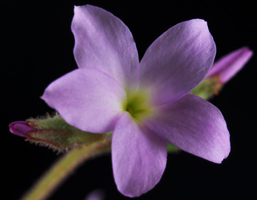 Suksdorfia violacea flower.